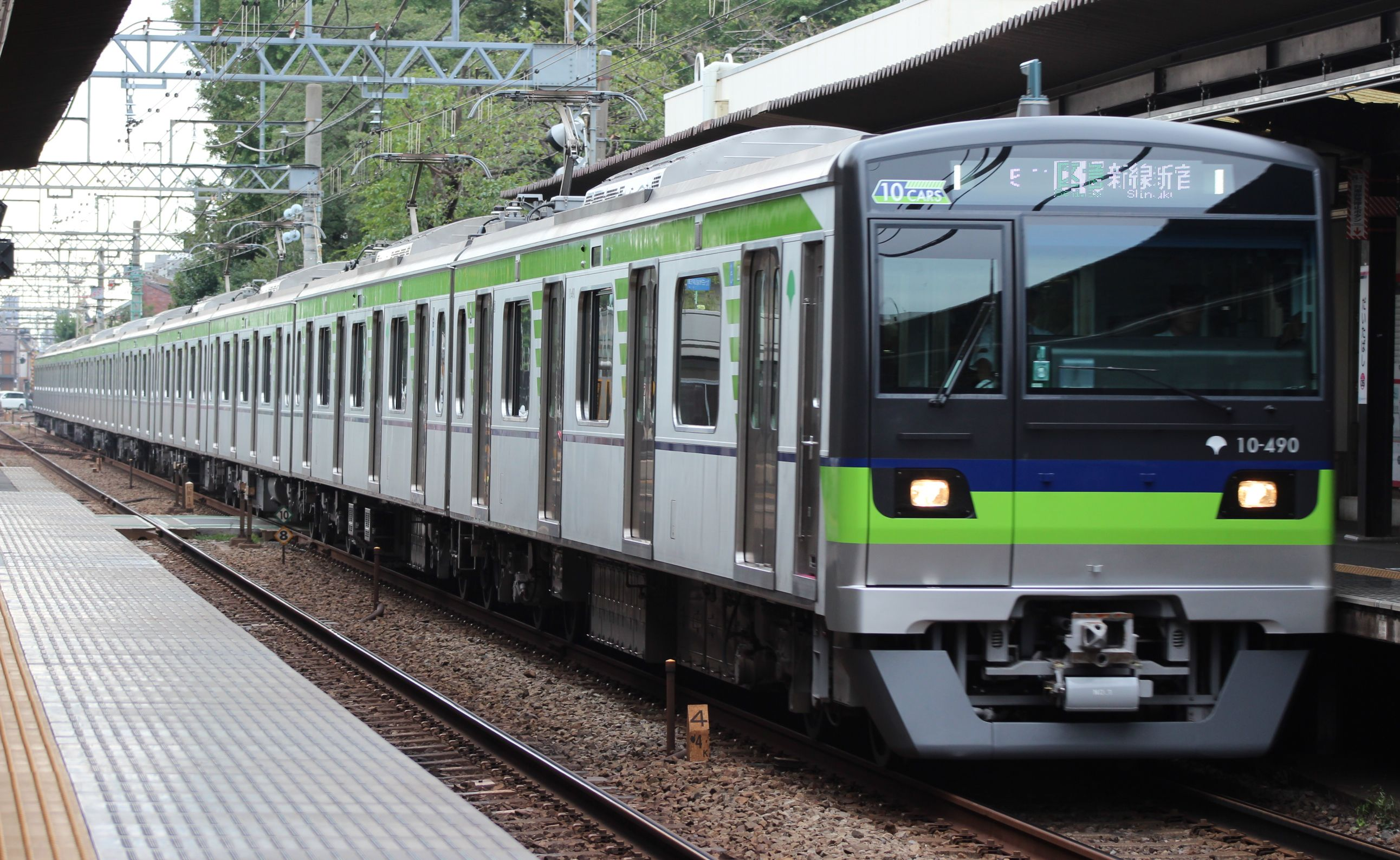 Toei 10-300 series EMU 3rd-batch set 10-490